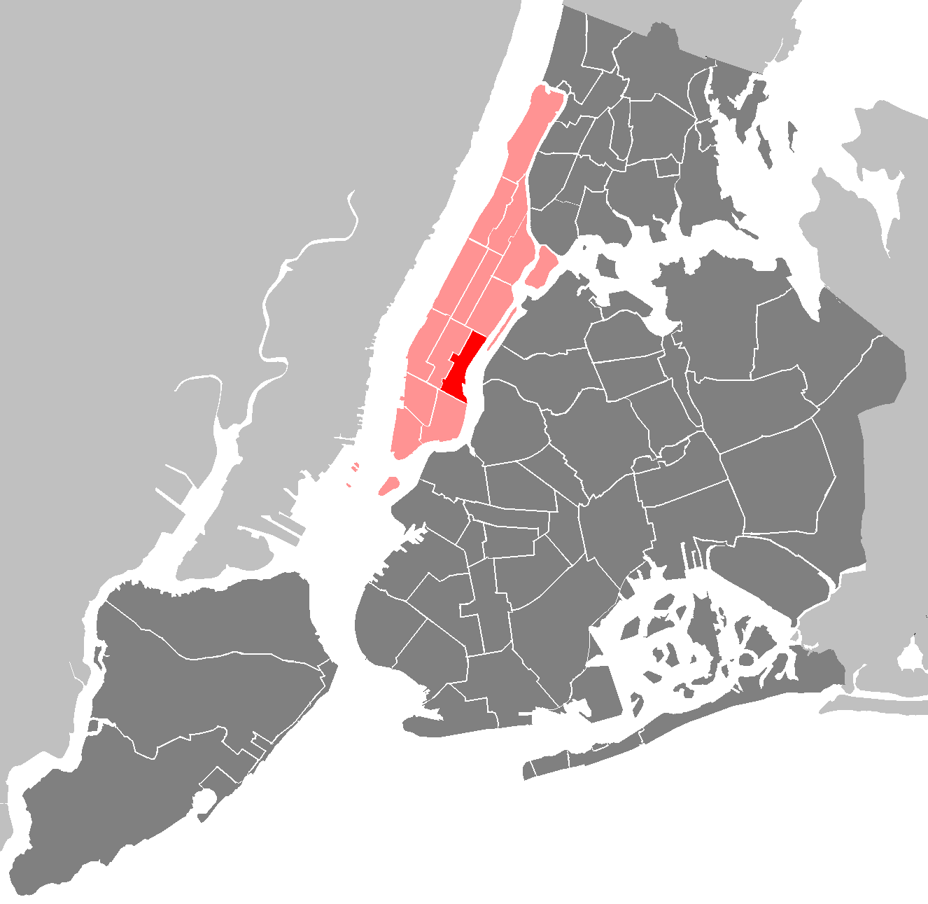 Category:Maps of New York City: New York City - Manhattan - Community Board 6.PNG